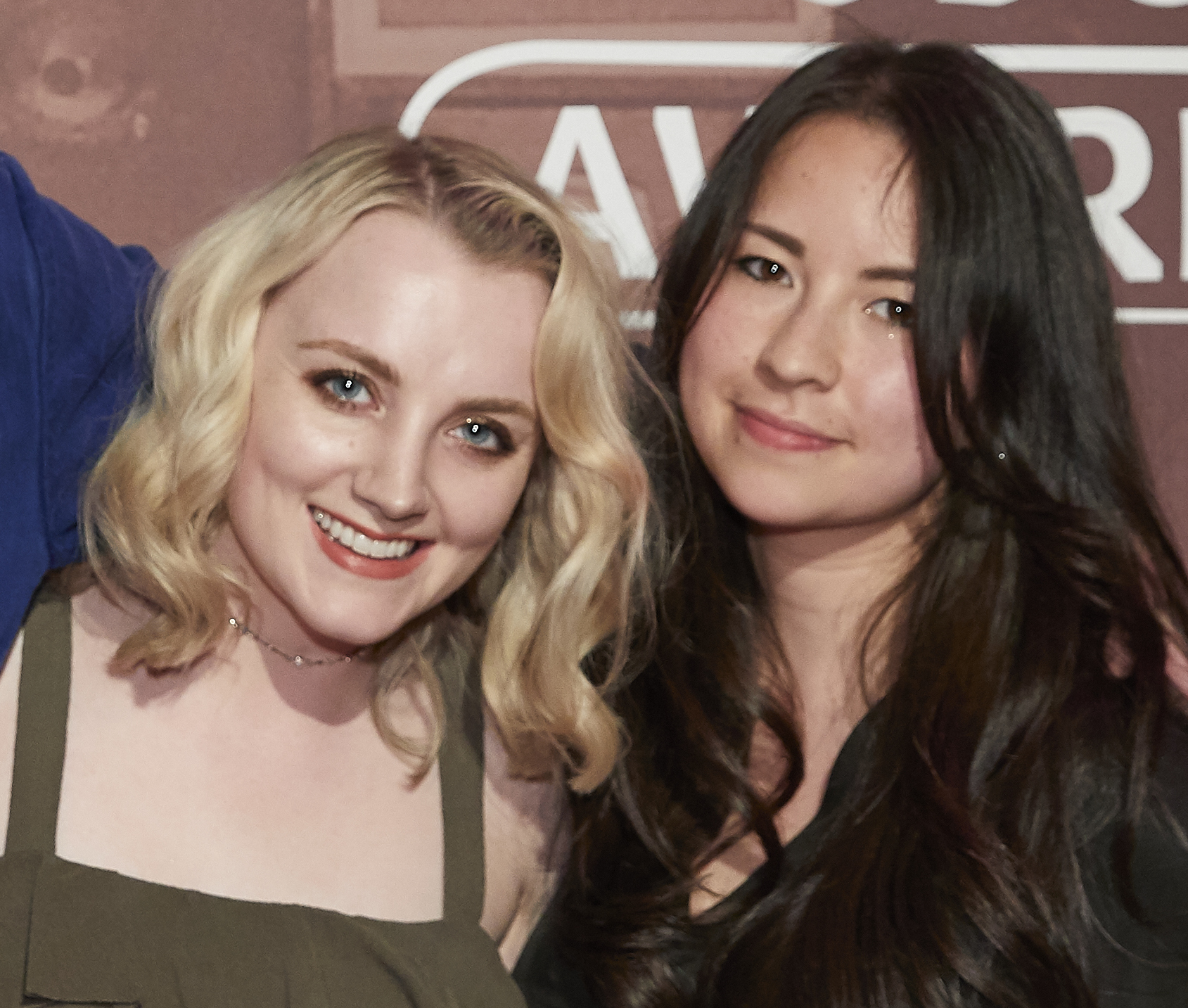 Thomas Griffin, Craig Parkinson, Evanna Lynch and Momoko Hill